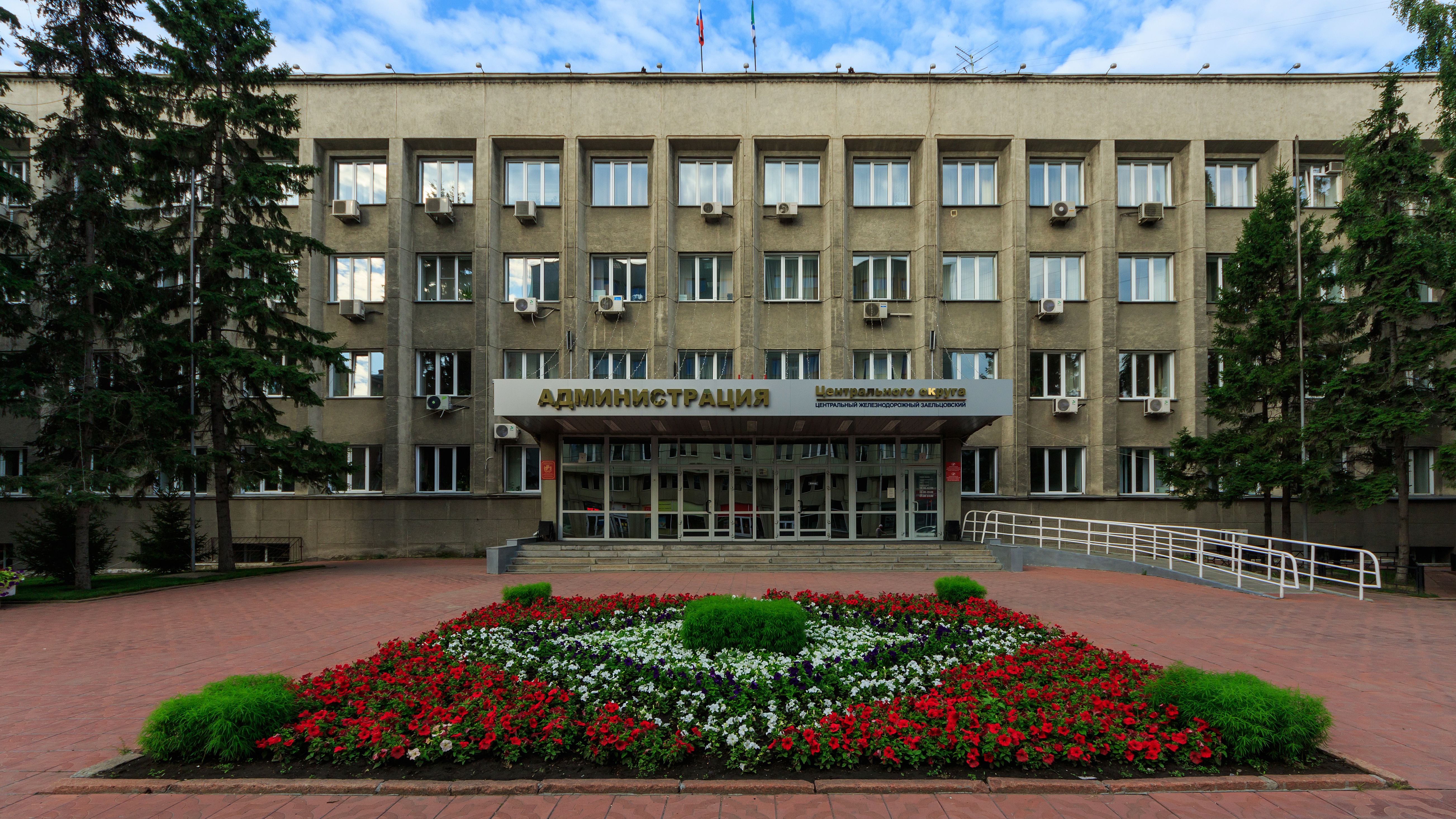 Building of the Central Okrug administration in Novosibirsk, Russia